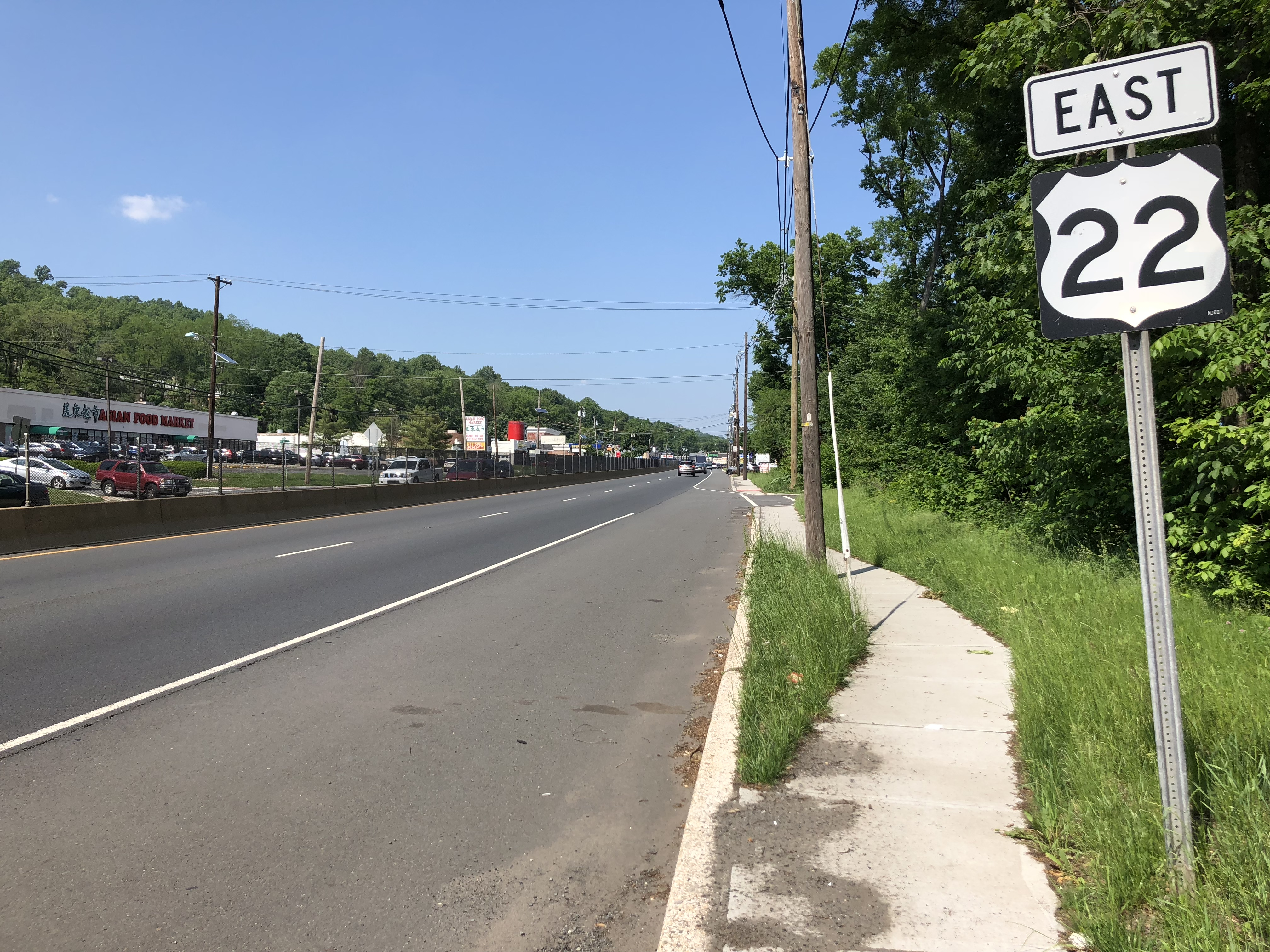 View east along U.S. Route 22 between Somerset County Route 649 (West End Avenue) and Malcolm Avenue in North Plainfield, Somerset County, New Jersey